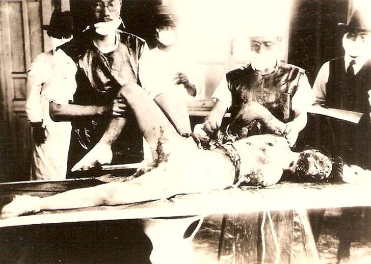 Autopsy of a Japanese victim of the Tsinan Massacre